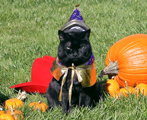 Description from : "The White House pets, India, Miss Beazley and Barney, get ready for a Boo-tiful Halloween Wednesday, Oct. 31, 2007, as they sit for photos on the South Lawn of the White House. Being very patient, from left, are India, as the wizard; Miss Beazley, as a strawberry, and Barney, as a cowboy. White House photo by Shealah Craighead"